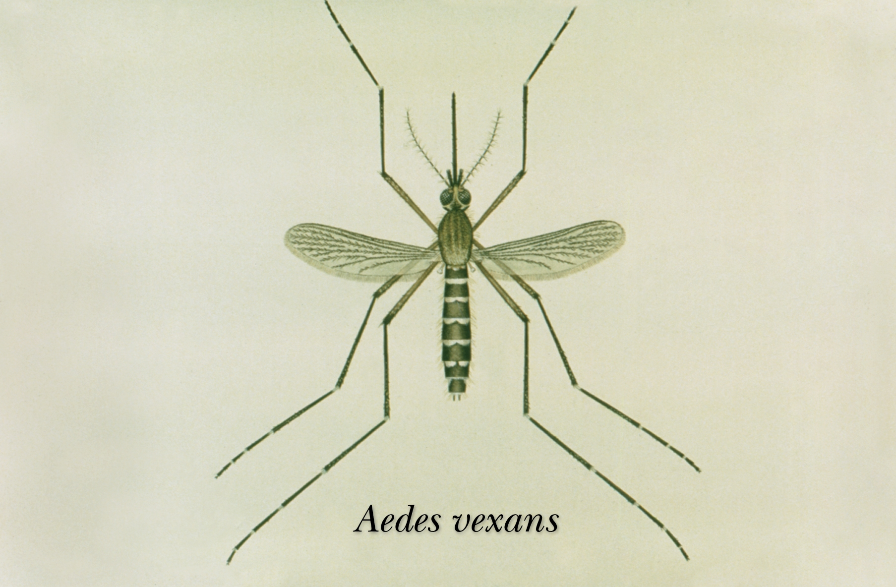 an illustration of an adult Aedes vexans mosquito